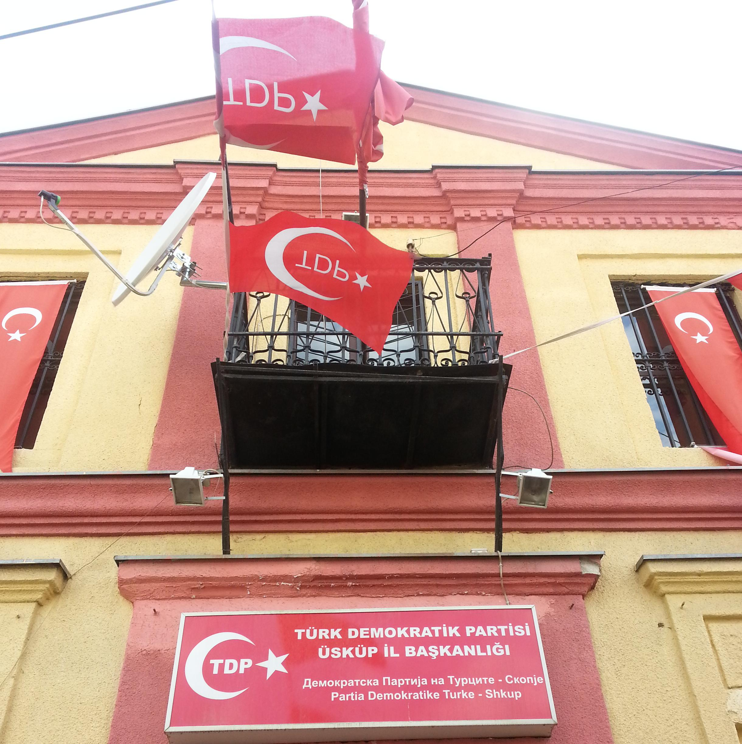 View of an office belongs to Democratic Party of Turks in Skopje.